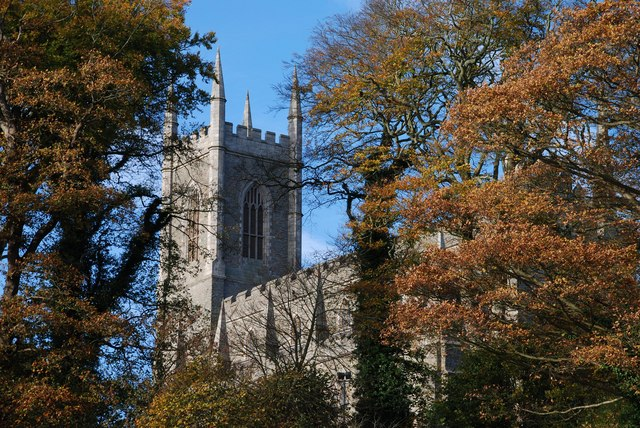 Down Cathedral (2). See 172263. The western side of the cathedral seen from near the St Patrick Centre 605285.